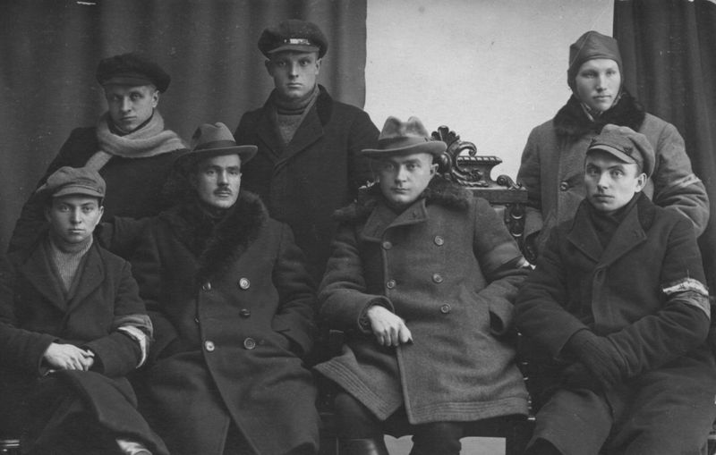 Lithuanian commanders of the Klaipėda Revolt. First row from left: commander of the 1st group Mykolas Bajoras (Kalmantavičius/Kalmantas), deputy army commander F. Butkeraitis (A. Goncerauskas), army commander Jonas Budrys (Polovinskas), staff commander Oksas (Juozas Tomkus); Second row from left: adjutant Juozapaitis (Juozas Šarauskas), formation adjutant Endrikeitis (Andrius Pridotkas), special adjutant Martynas Lacytis.